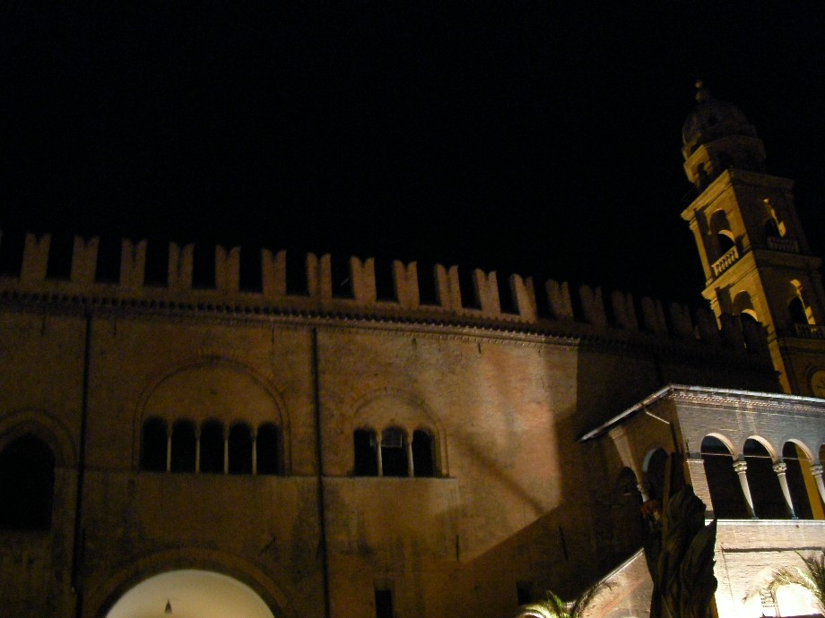 The palace del Podestà of Faenza at night